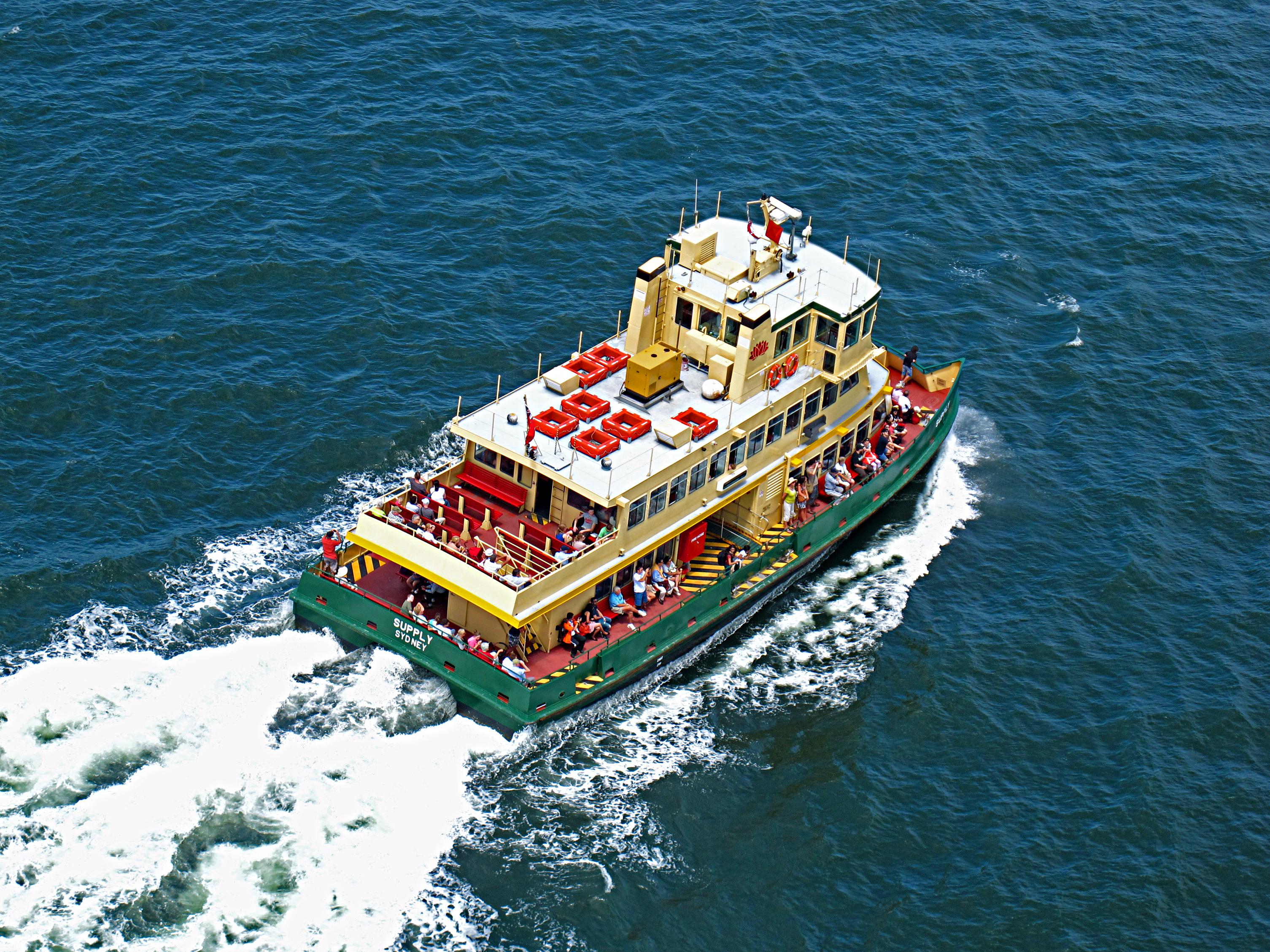 A Ferry crossing the Sydney Cove on the southern shore of Port Jackson